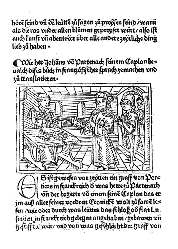 Page 2 of Johann Bämler's edition of the History of Melusine Couldrette; Thüring von Ringoltingen. Das abenteürlich buch beweyset vns von einer frawen genandt Melusina. Augsburg: Johann Bämler, 1474, fol. 2r. An edition is in the possession of the Bayerische Staatsbibliothek, Shelfmark: 2 Inc.c.a. 295.